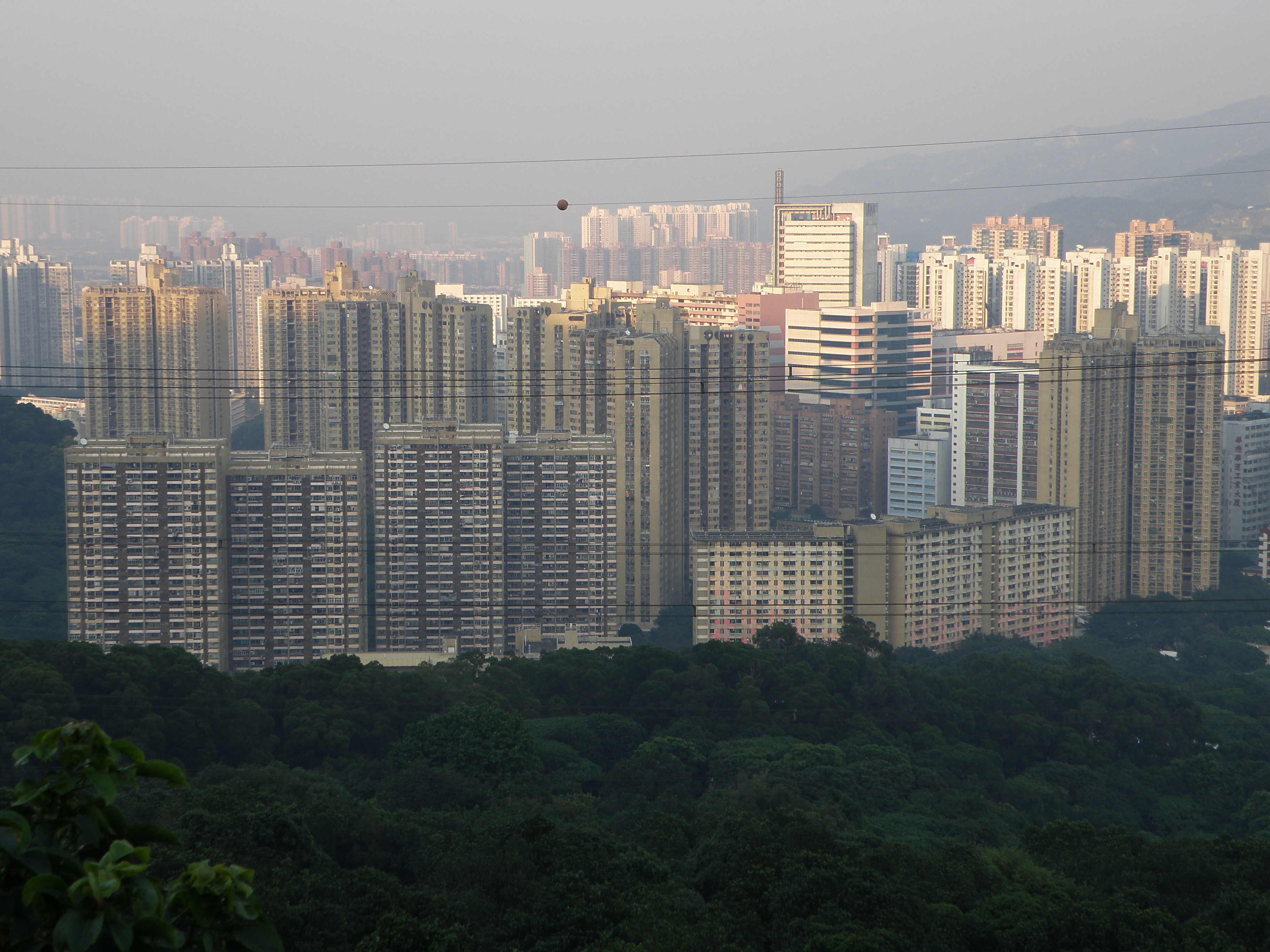 Shan King Estate in Tuen Mun, Hong Kong.